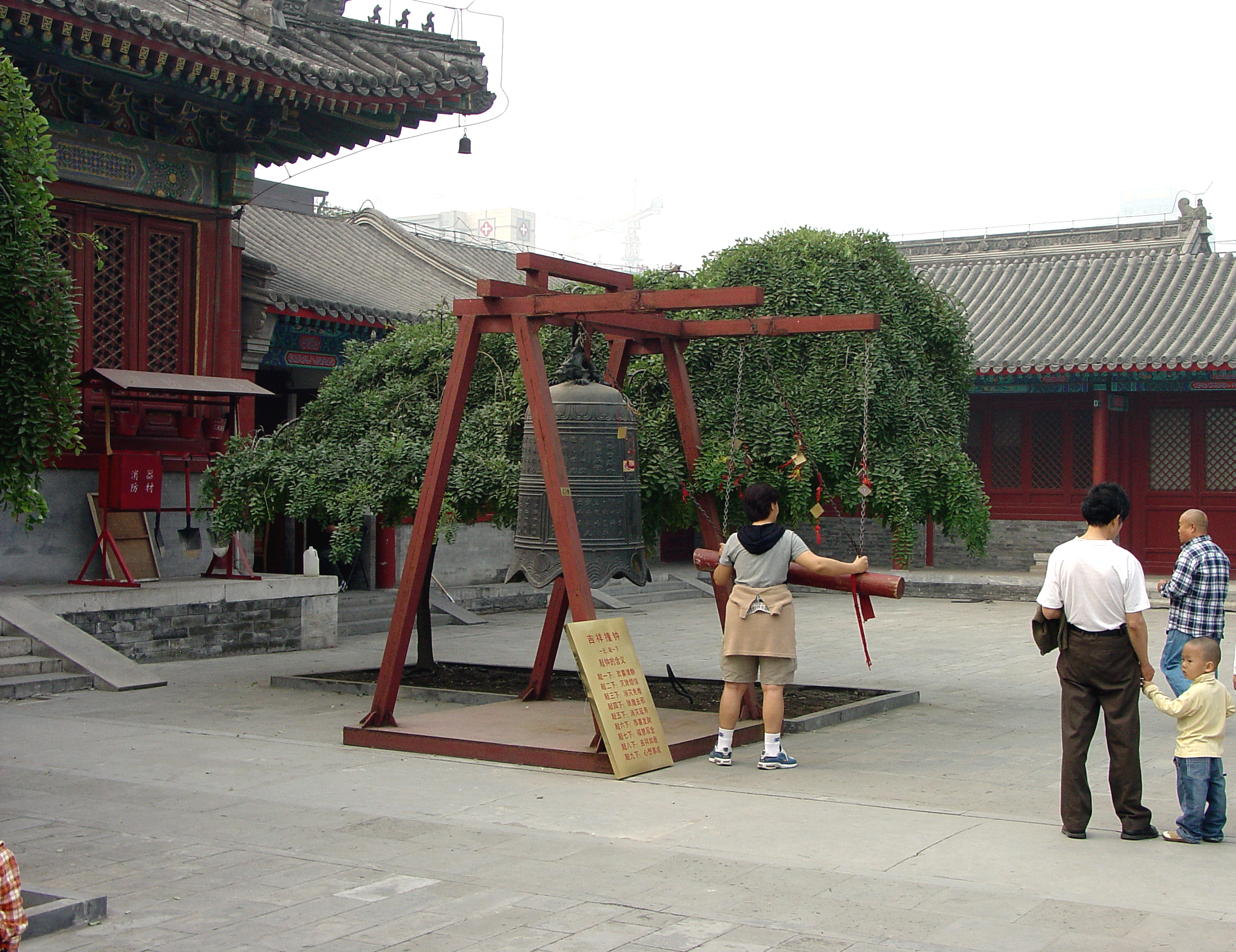 Ringing the Bell. First Courtyard, Bai Ta Si (Miaoying Temple), Beijing Ringing the temple's bell is a popular activity of the visitors.